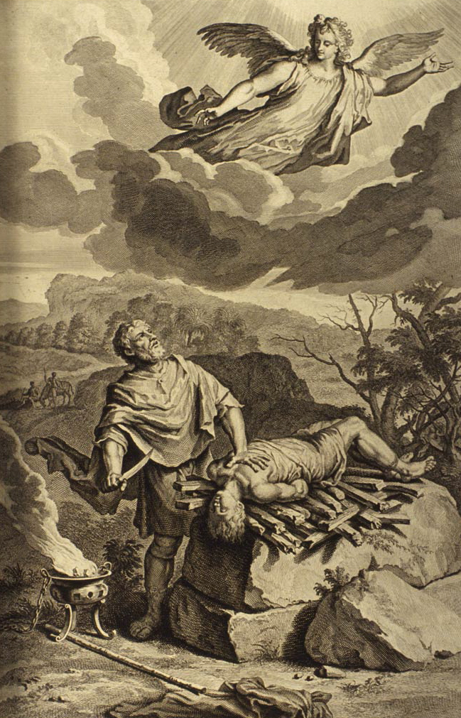 Abraham, Lay Not Your Hand on the Child; as in Genesis 22:11-12: "And the angel of the Lord called unto him out of heaven, and said, Abraham, Abraham: and he said, Here am I. And he said, Lay not thine hand upon the lad, neither do thou any thing unto him: for now I know that thou fearest God, seeing thou hast not withheld thy son, thine only son from me."; illustration from the 1728 Figures de la Bible; illustrated by Gerard Hoet (1648–1733) and others, and published by P. de Hondt in The Hague; image courtesy Bizzell Bible Collection, University of Oklahoma Libraries